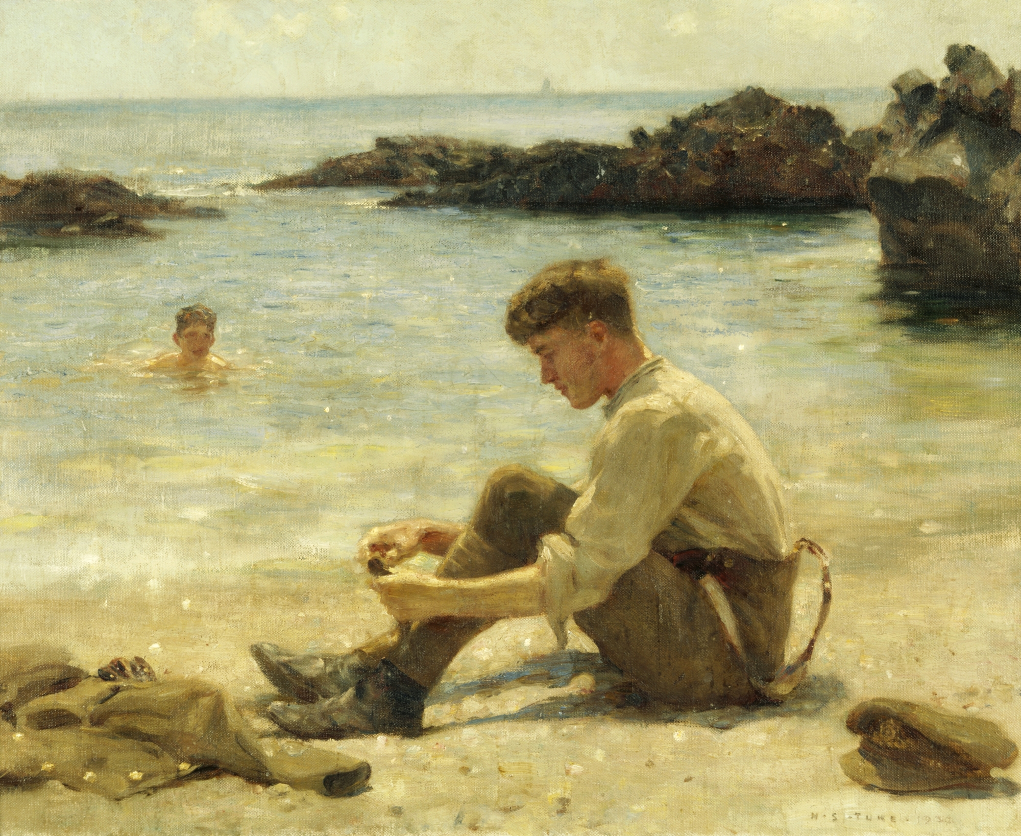 Lieutenant Colonel Thomas Edward Lawrence (1888-1935), British military officer renowned for his liaison role during the Arab Revolt of 1916-18